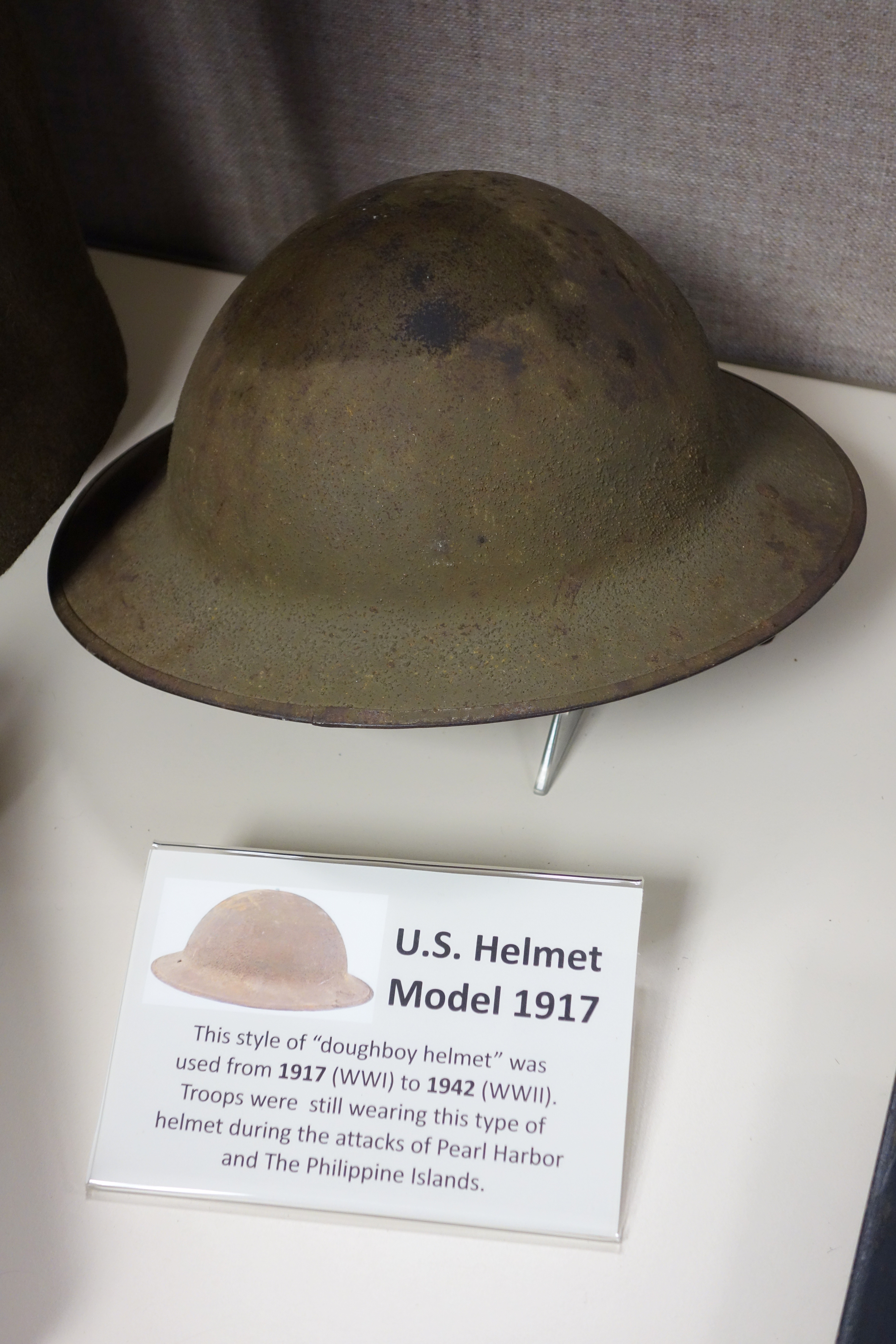 Exhibit in the Fort Devens Museum, 94 Jackson Road #305, Devens, Massachusetts, USA.